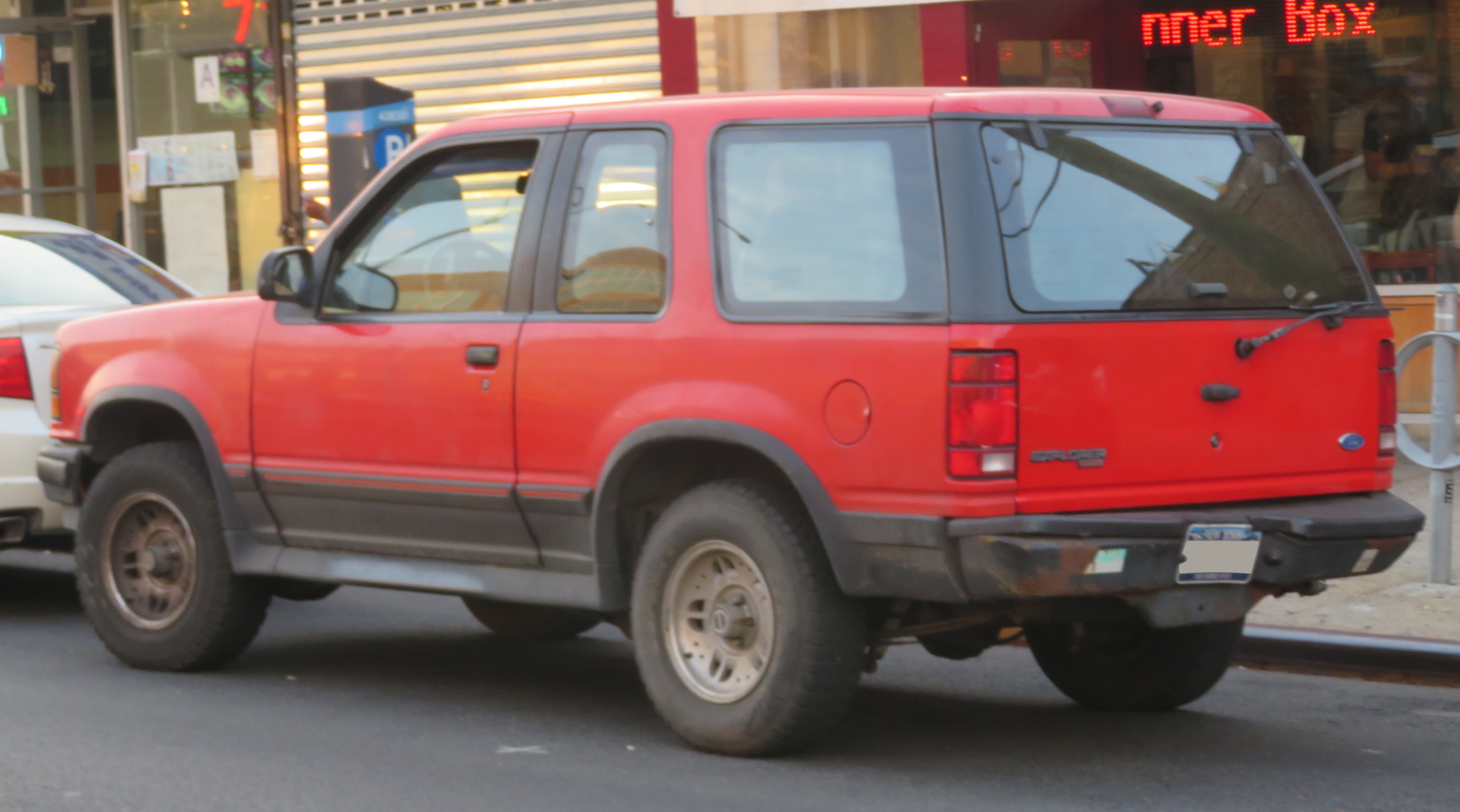 Photographed in Queens, New York